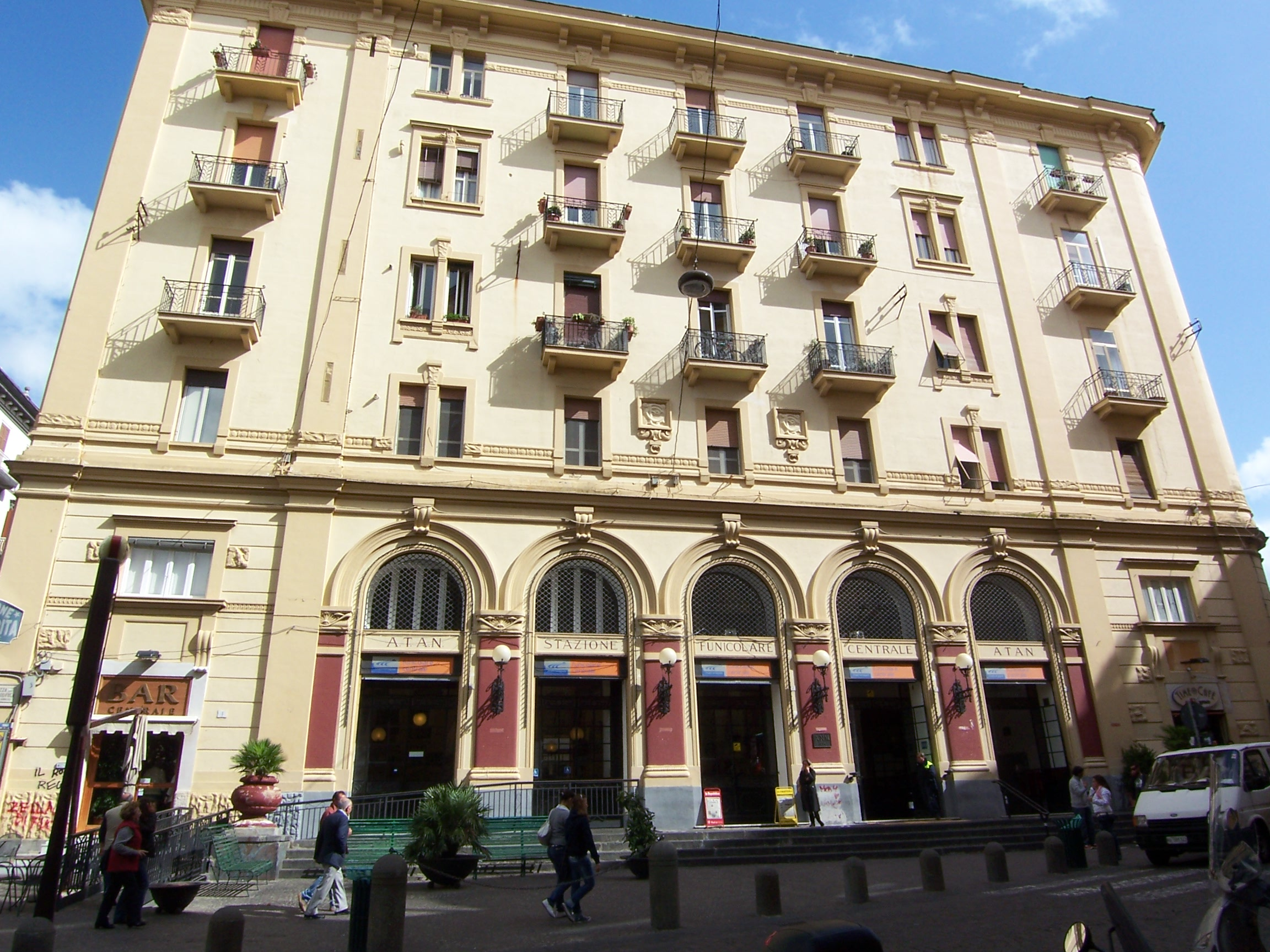 Funicolare Centrale, Naples